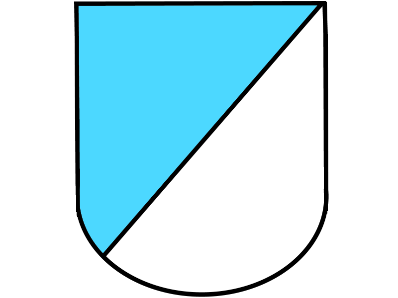 47. Infanterie Division Vehicle Insignia